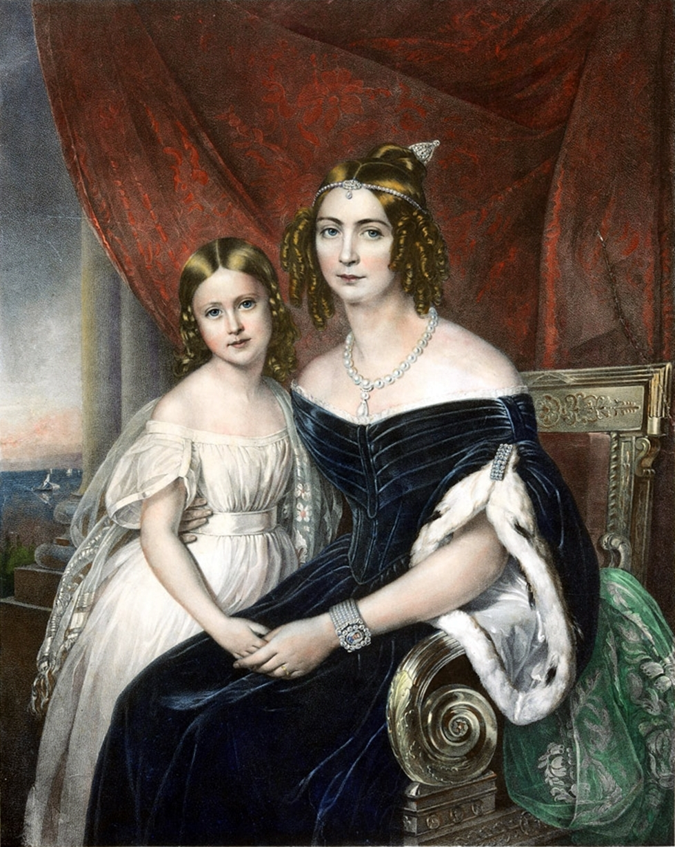 Former Brazilian Empress Dona Amélie of Leuchtenberg with her daughter Dona Maria Amélia, Princess of Brazil (1831-1853)